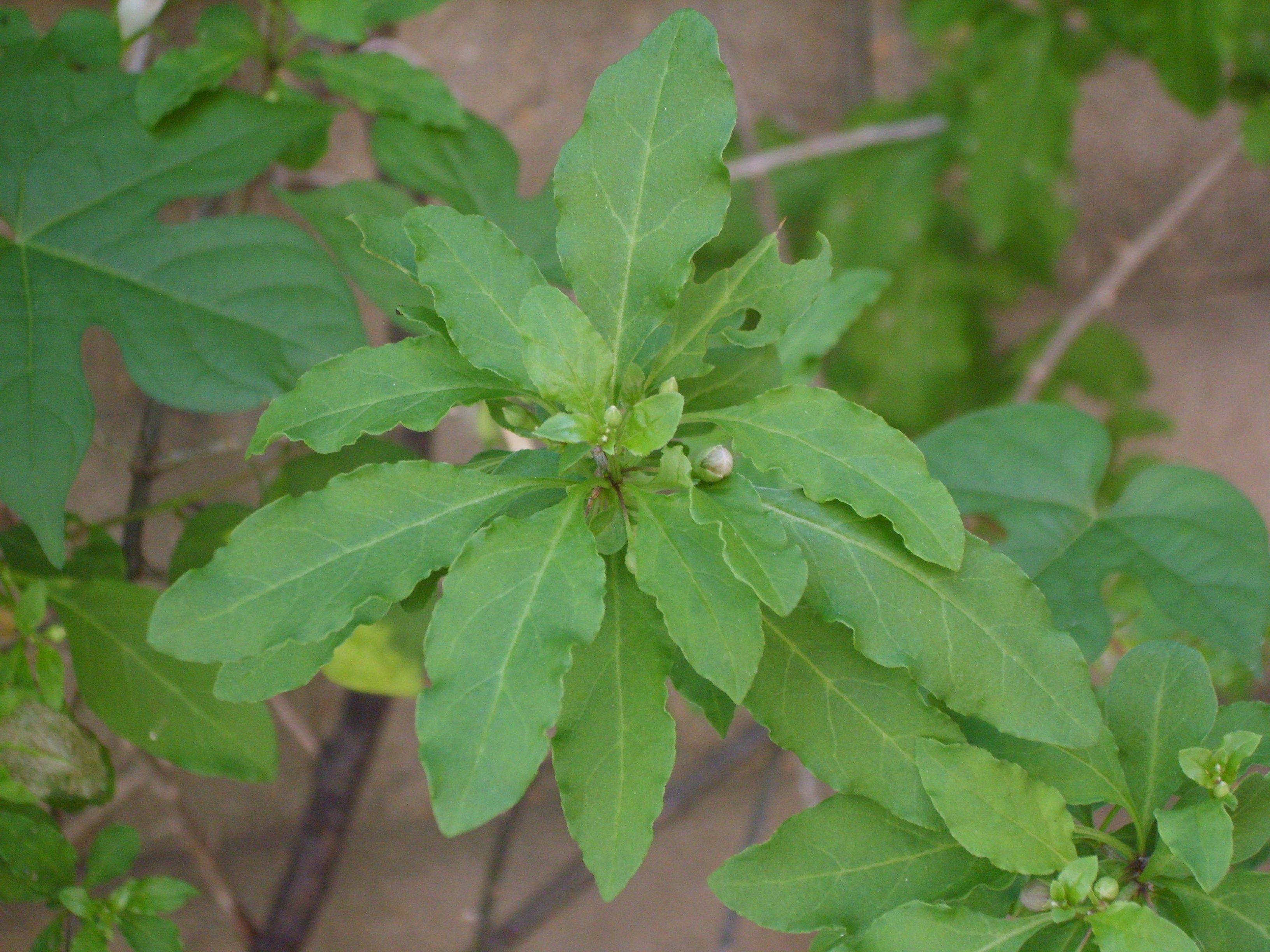 Lycium chinense